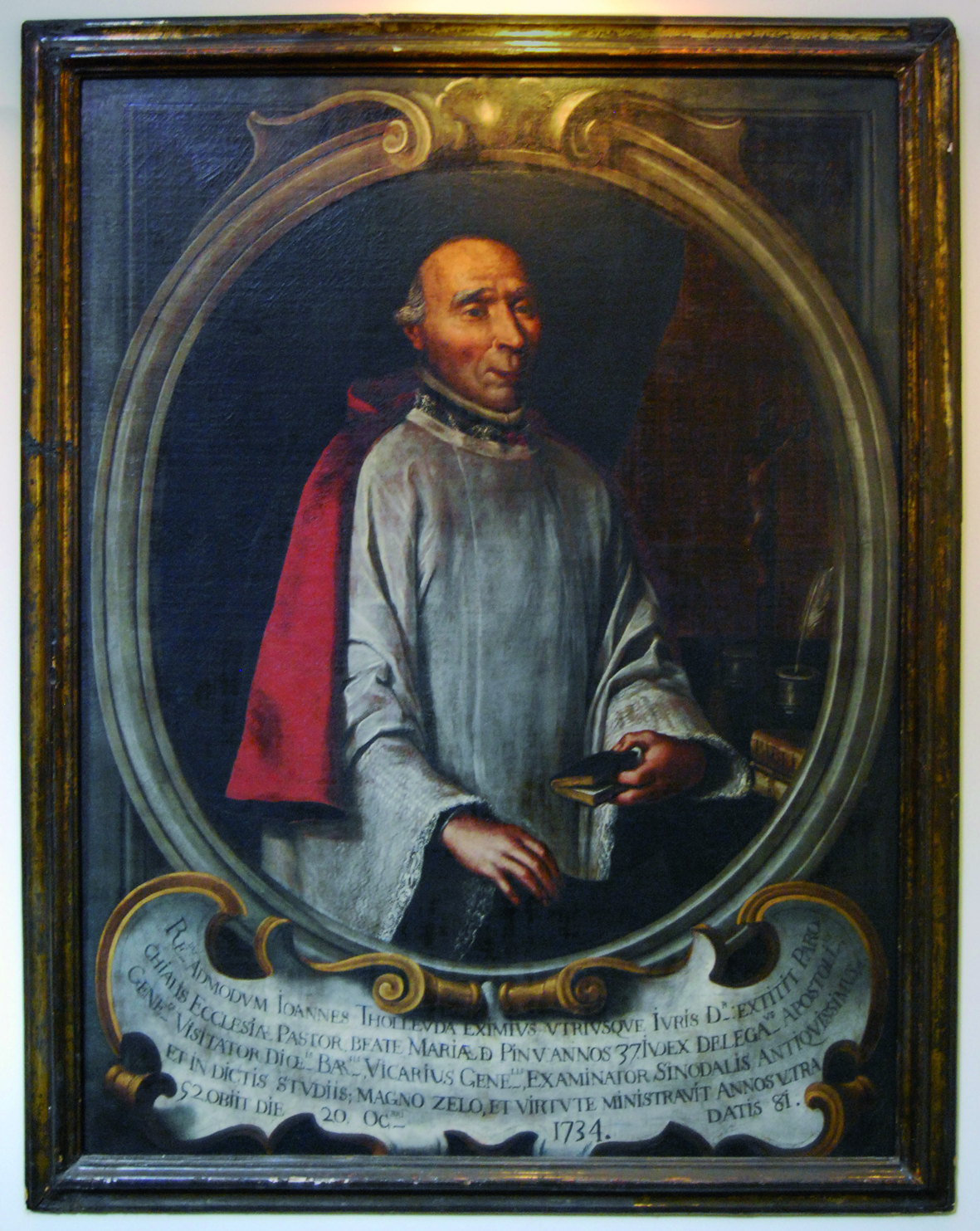 Portrait of Dr. Joan Tolleuda, St. Maria del Pi rector in 1684-1721. Anonymous oil painting. Part of a series of four paintings of prominent personalities of Santa Maria del Pi made for the new archive in 1764. Currently housed at the Museum and Archive of Santa Maria del Pi.